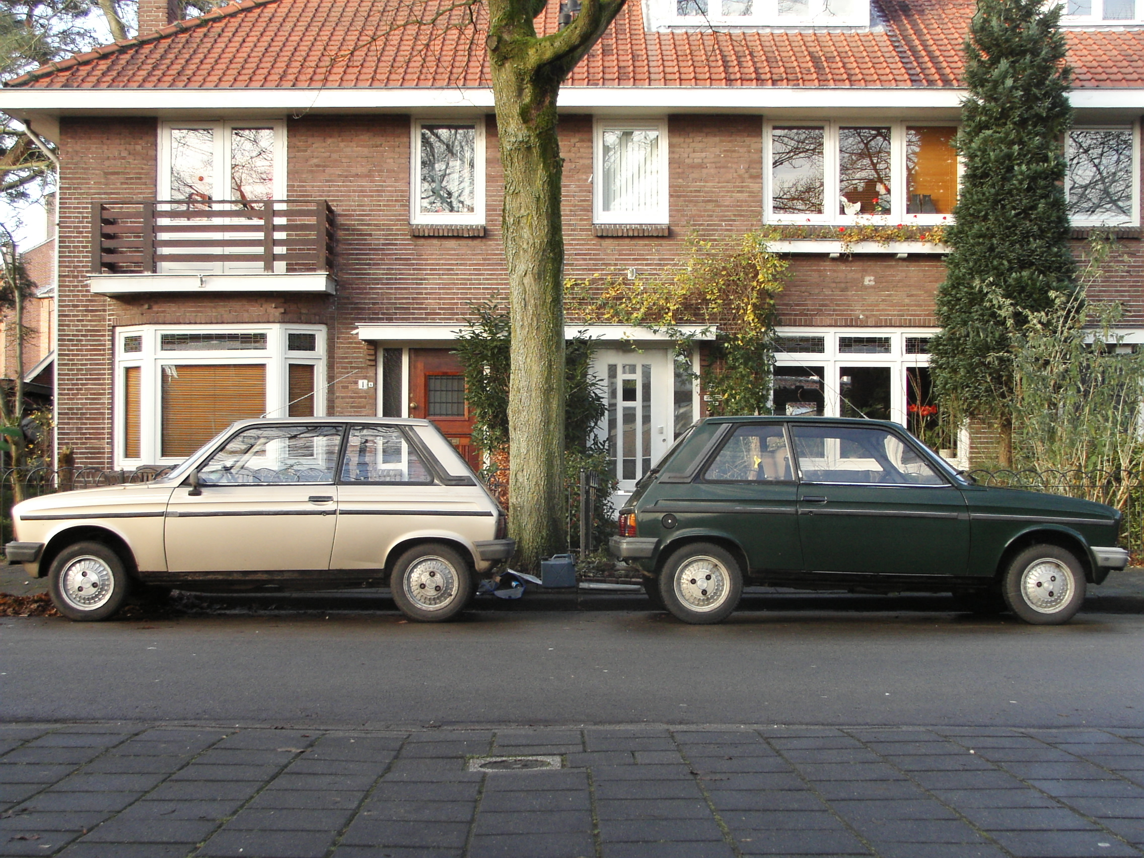 This picture shows a Citroën LNA 11E Cannelle and a 11RE-full option